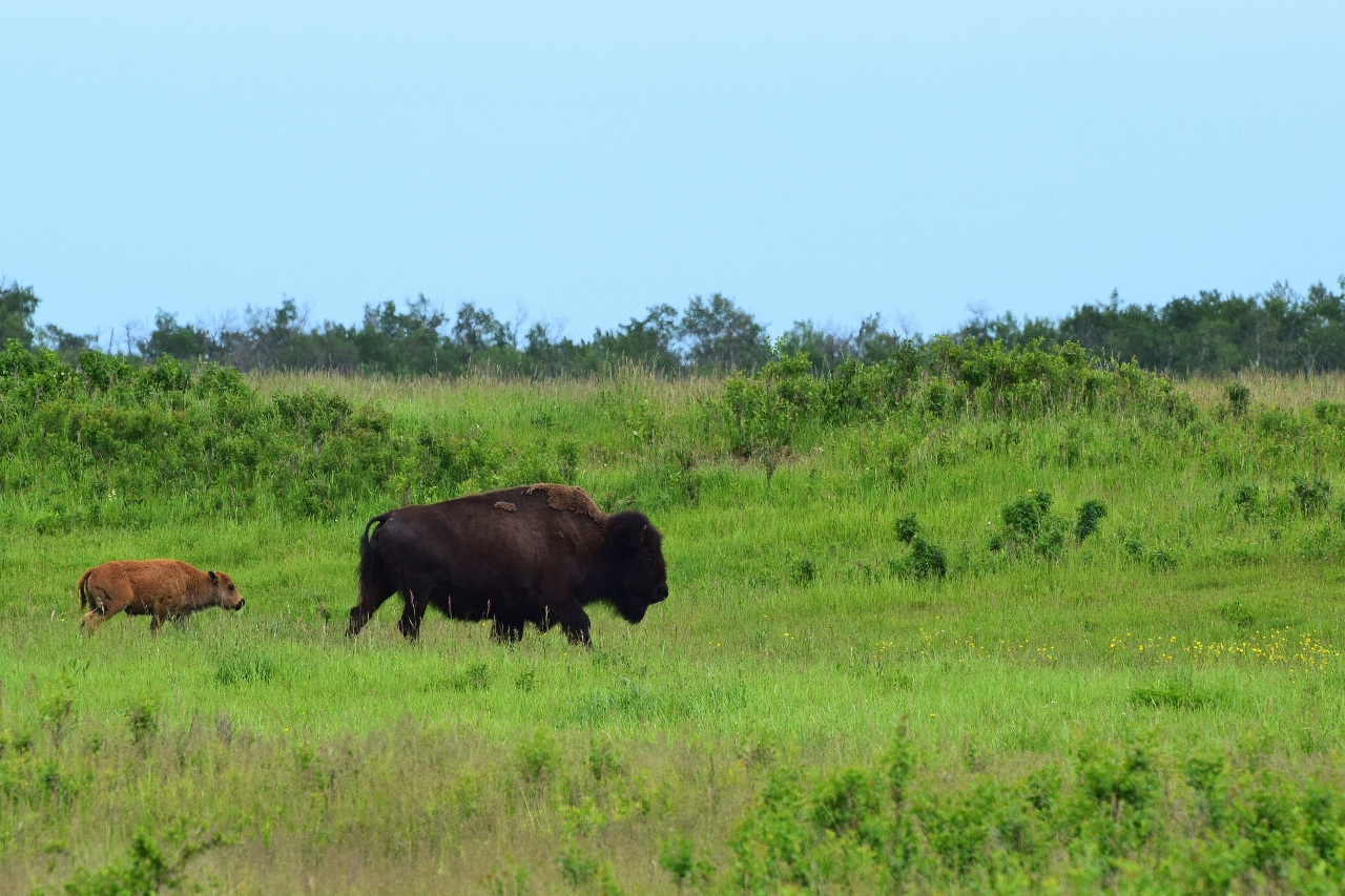 Visit Elk Island National Park in the late spring/early summer to spot baby bison!